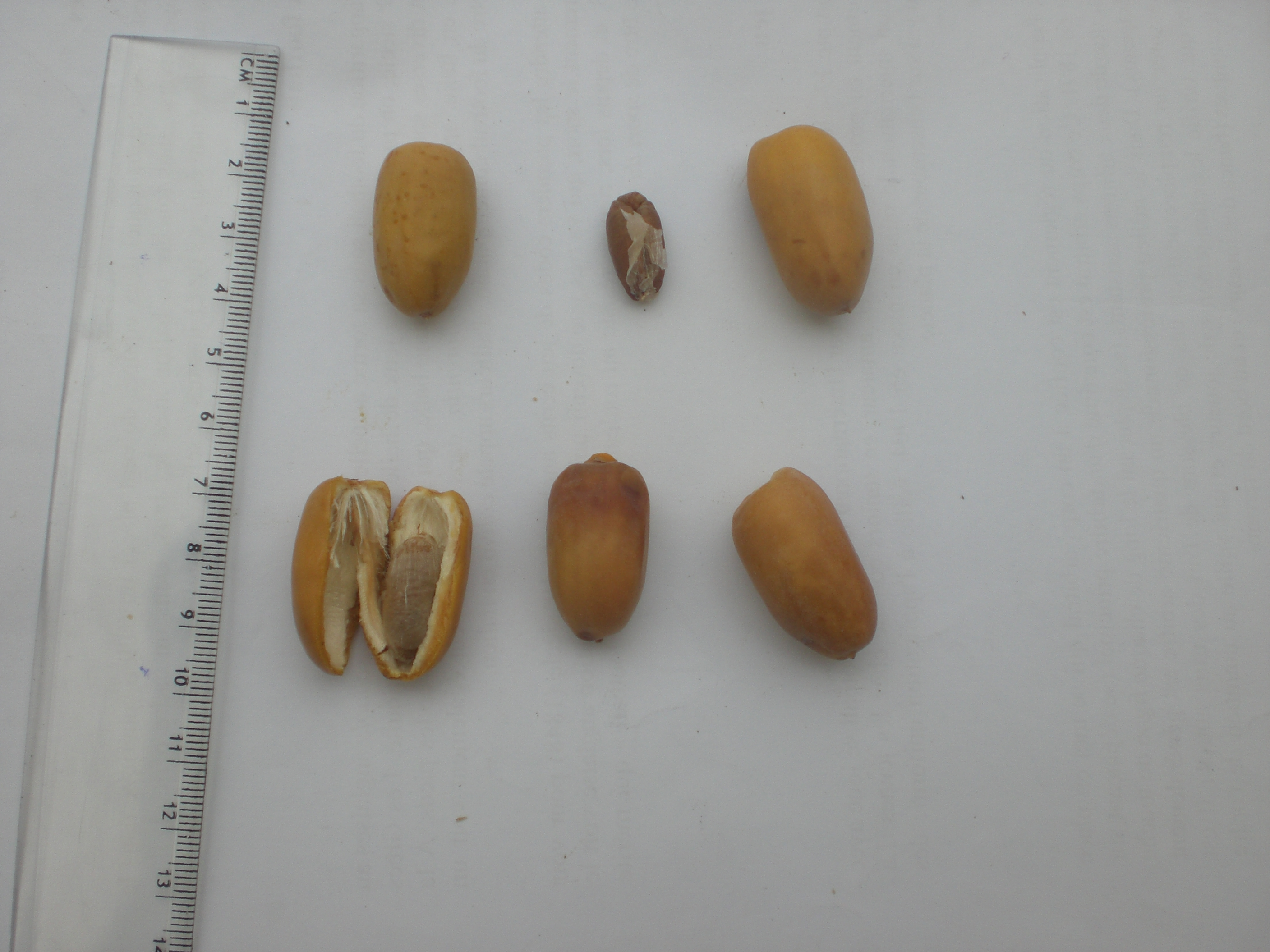 Tunisian dates called Bejjou